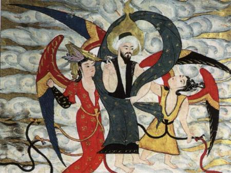 Mohammed presented to the monk Abd al Muttalib and the inhabitants of Mecca. 18th century Ottoman copy of a supposedly 8th century original. Now located in the Topkapı Palace Museum, Istanbul.